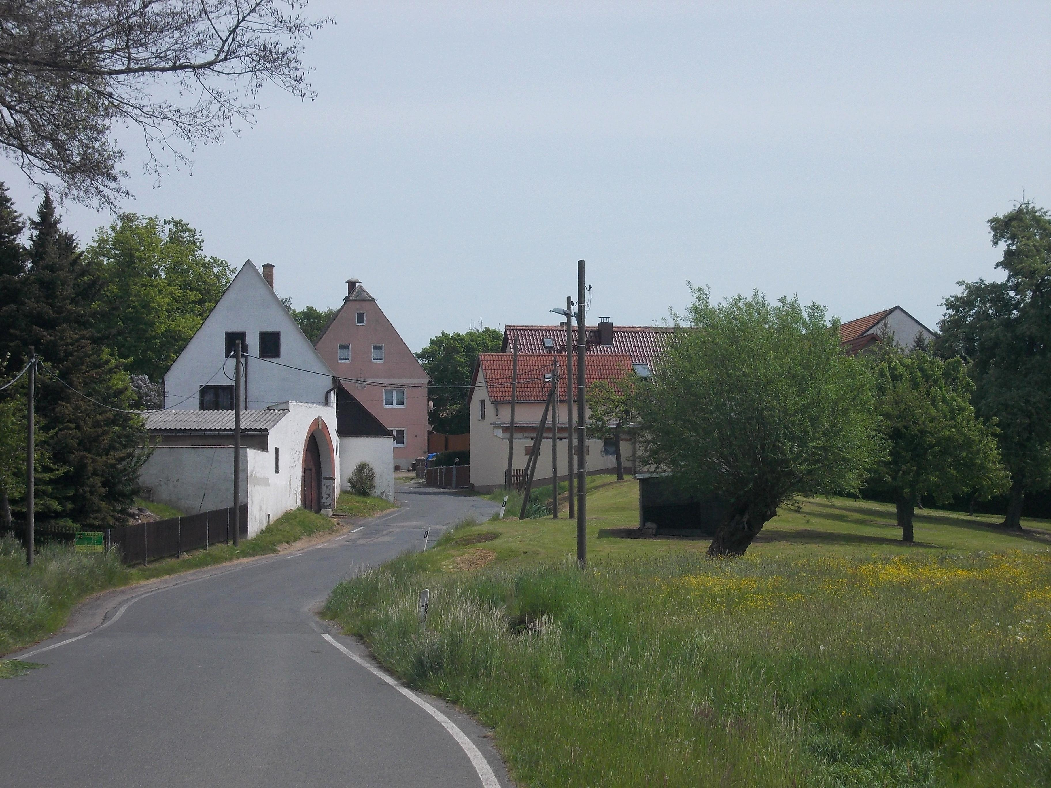 In Ilkendorf (Nossen, Meissen district, Saxony)